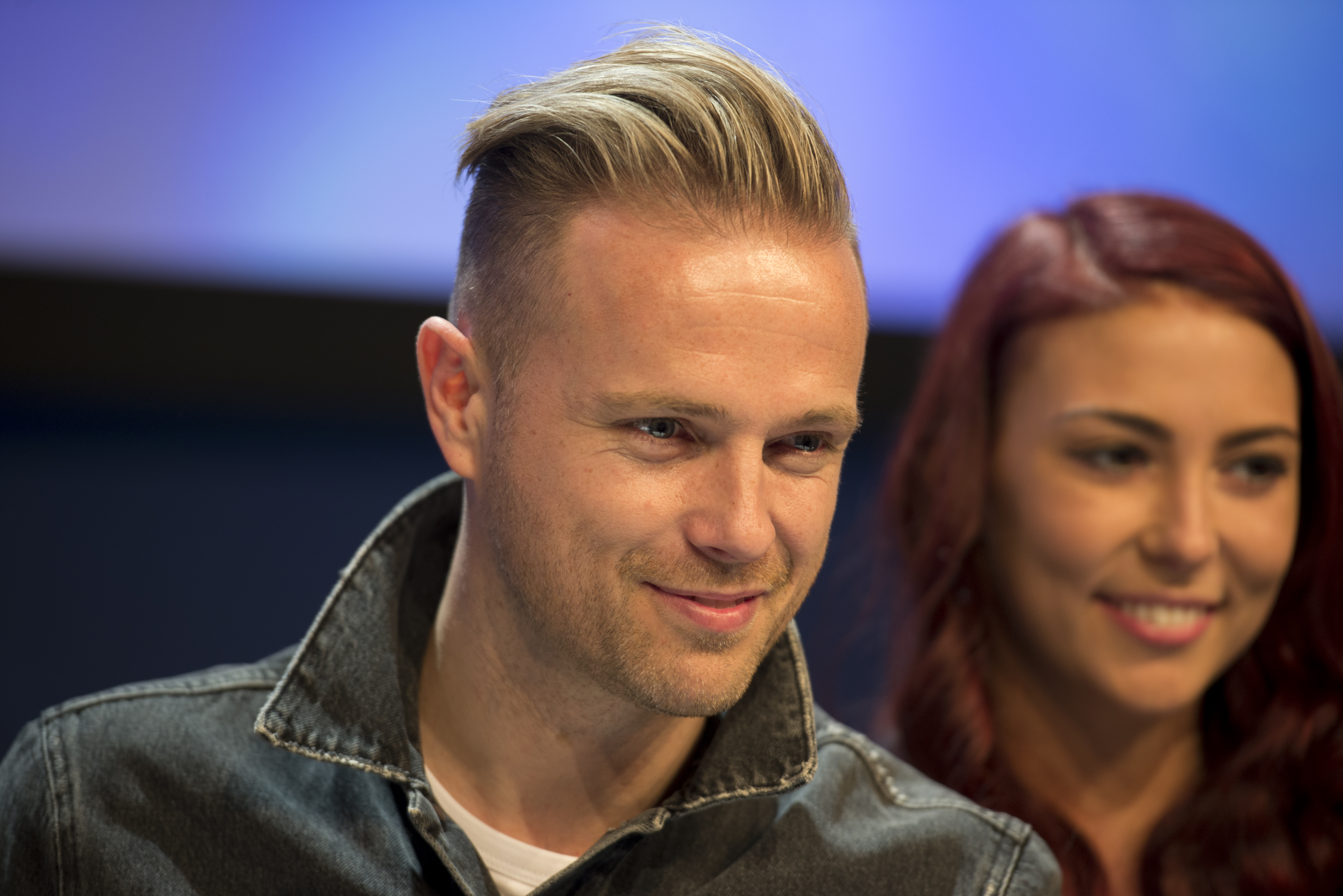 Nicky Byrne at a Meet & Greet during the Eurovision Song Contest 2016 in Stockholm. (Help translate this text)